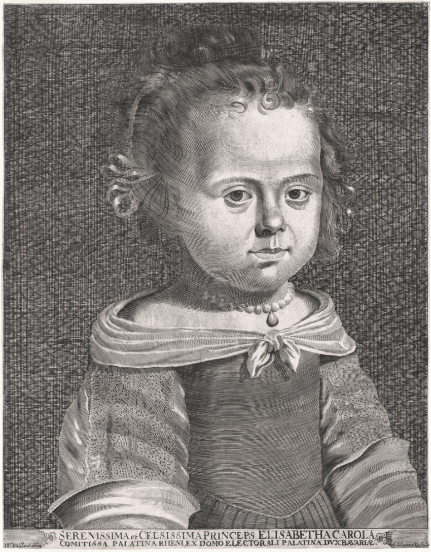 Engraving of Liselotte of the Palatinate as an infant after Vaillant